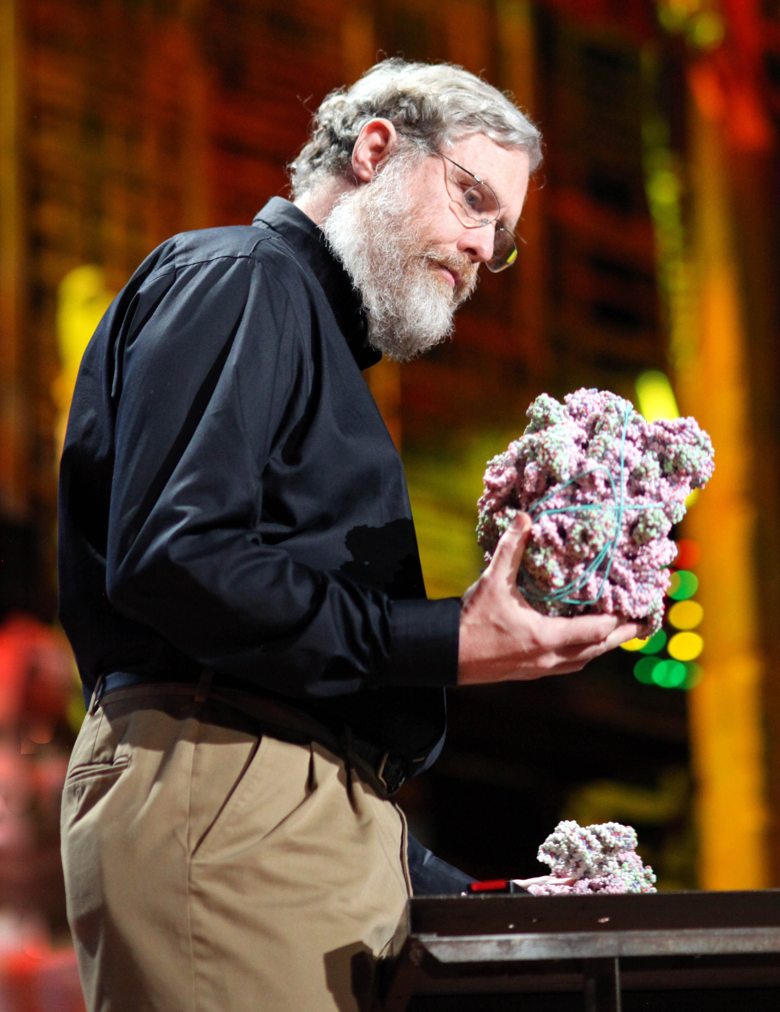 George Church marvels at a molecular model at TED 2010